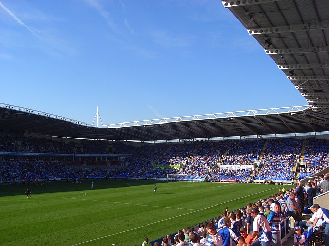 The interior of the Madejski Stadium, Reading. Looking across the pitch from near to the southeast corner during the half-time break during Reading's 4-0 victory over Swansea City. The ground has a cantilever roof above an arena with a capacity of about 24,000. For more information see the Wikipedia article Madejski Stadium.